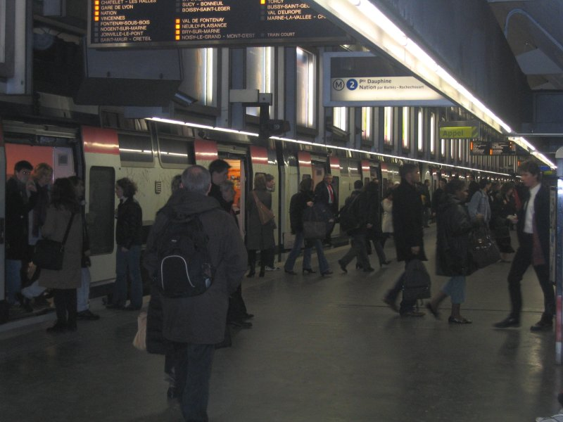 People leaving and getting in the RER. (Author: Metropolitan)